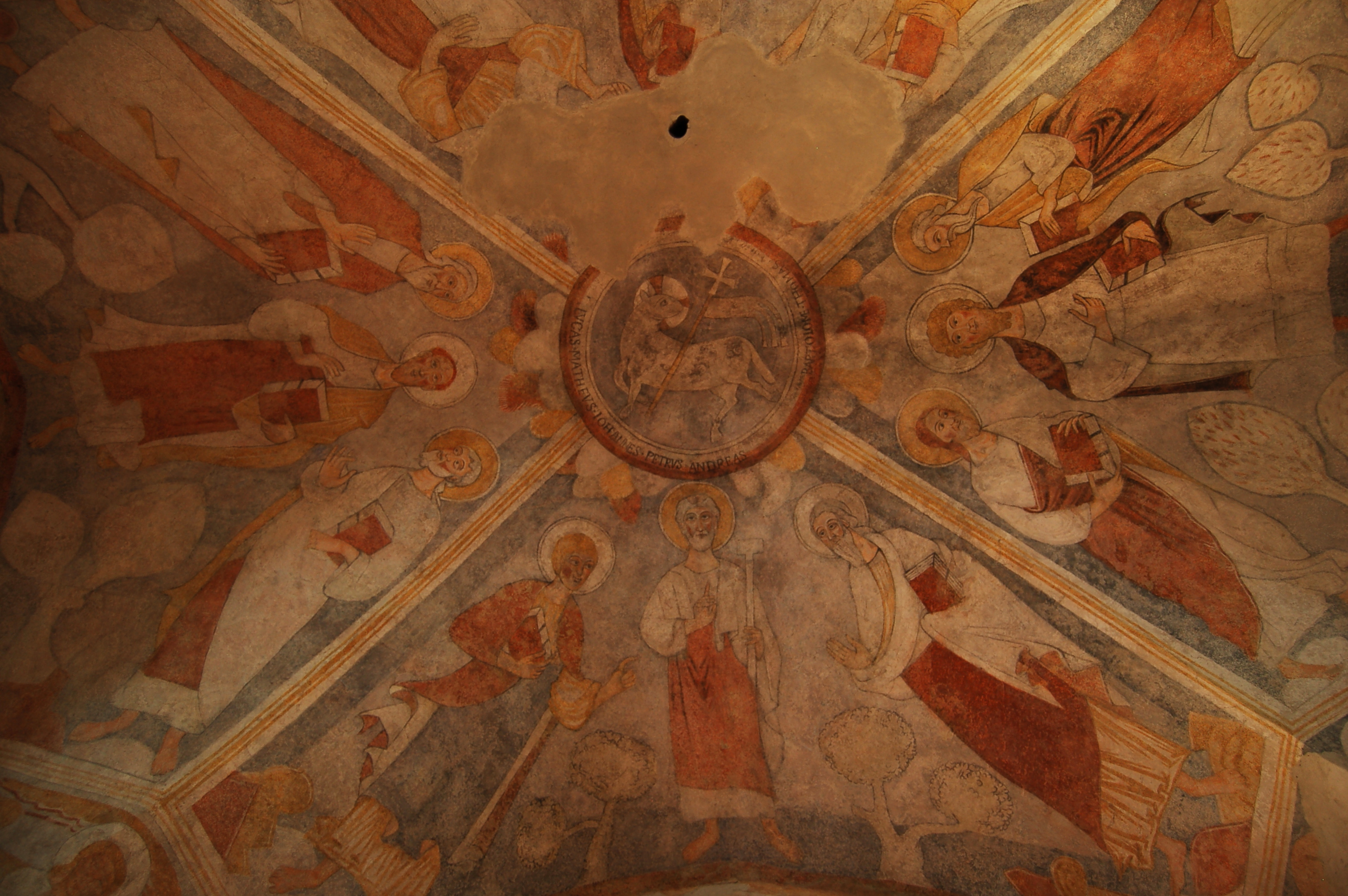 Muthmannsdorf parish church St Peter im Moos, Lower Austria: 13th century fresco at the vault of the crossing. In the centre Agnus Dei (Lamb of God), surrounded by the Twelve Apostles